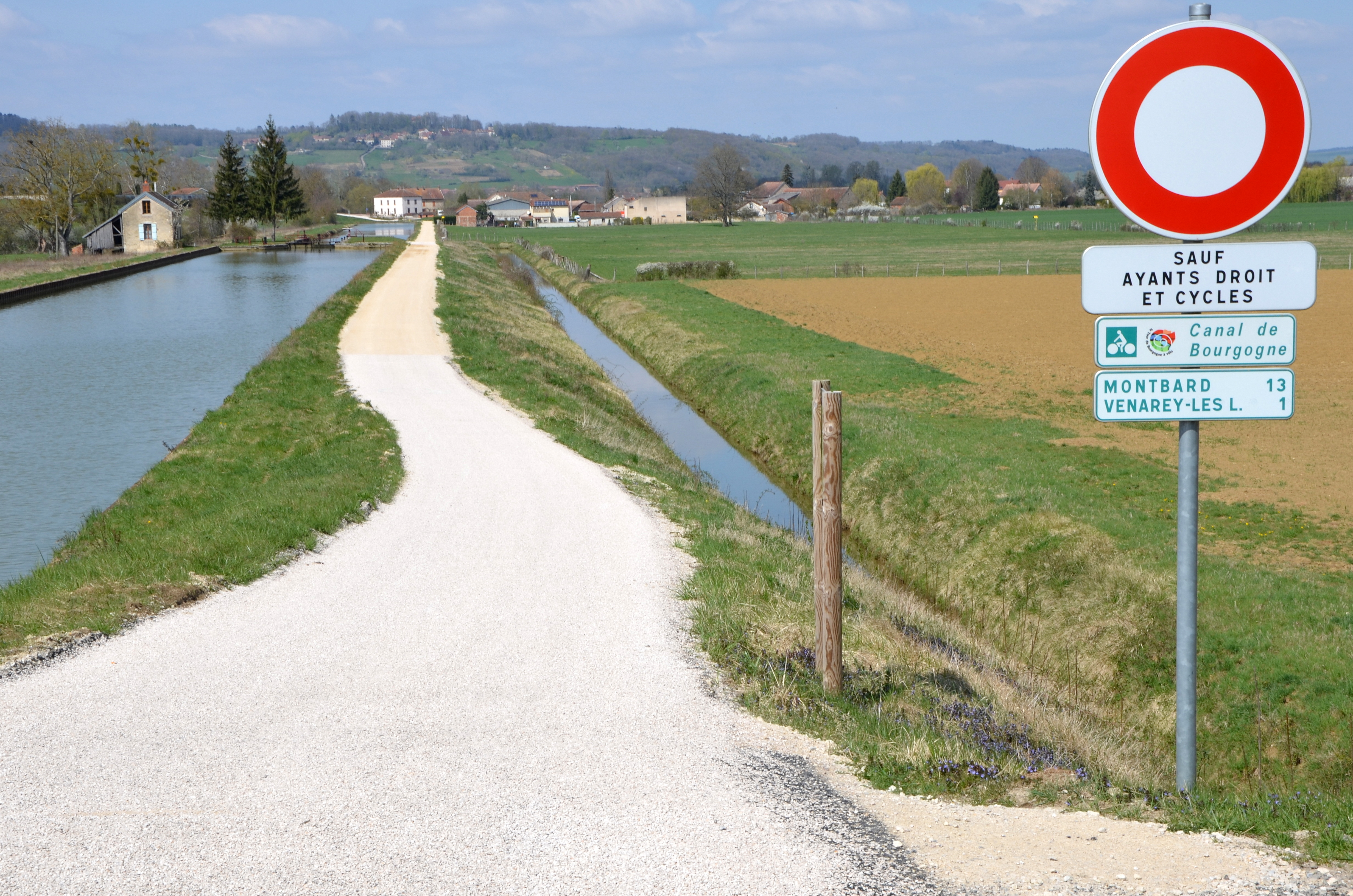 Canal of Burgundy Cycleway sign near Venarey les Laumes, Côte d'Or, Bourgogne, France